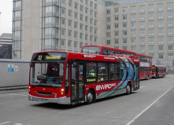 A view of the TransBus Enviro200 demonstrator while it was on demonstrations with London United on London Buses route 33(my own image).